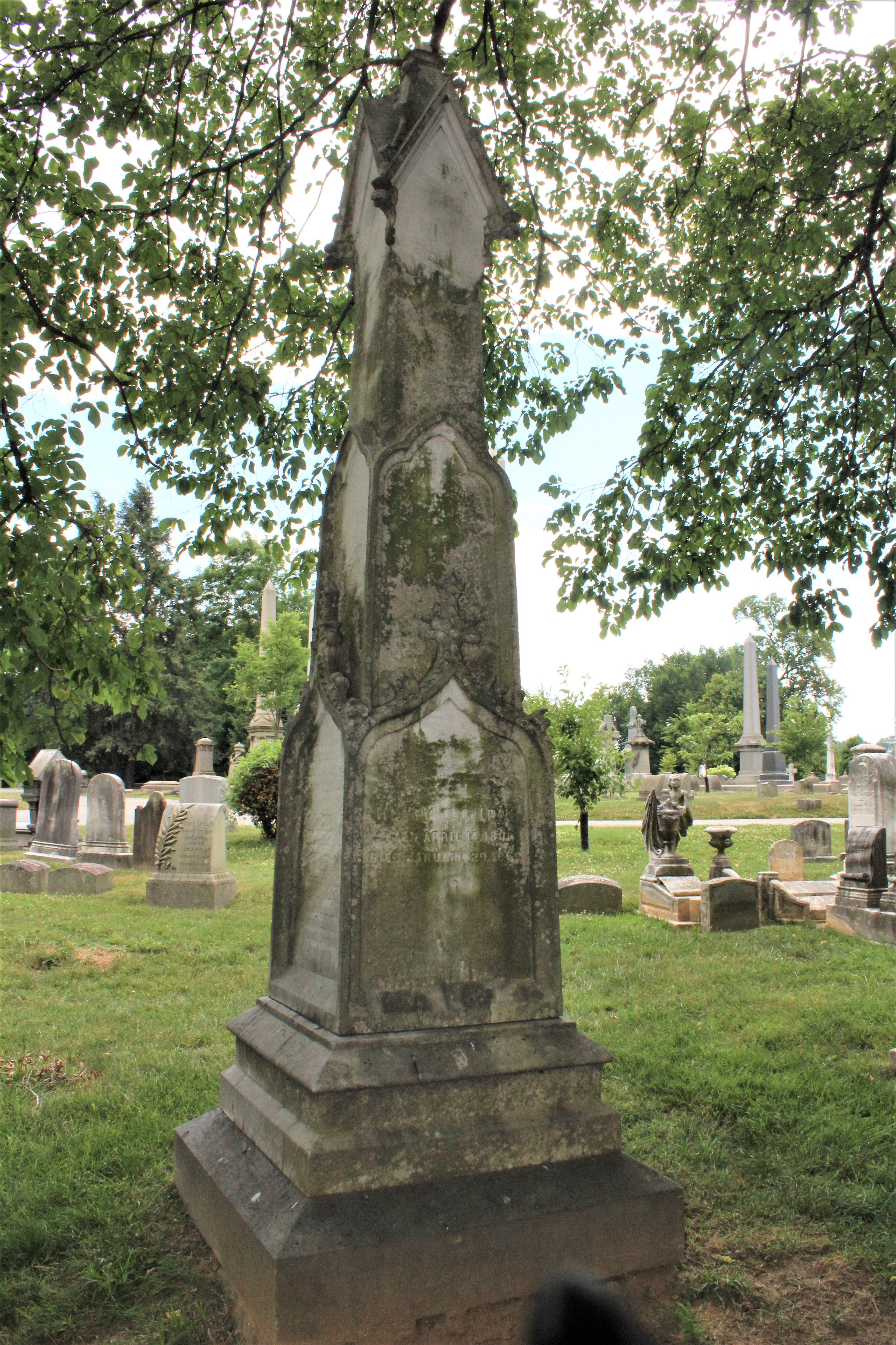 Henry Gilpin memorial in Laurel Hill Cemetery. Photo taken July 2020.